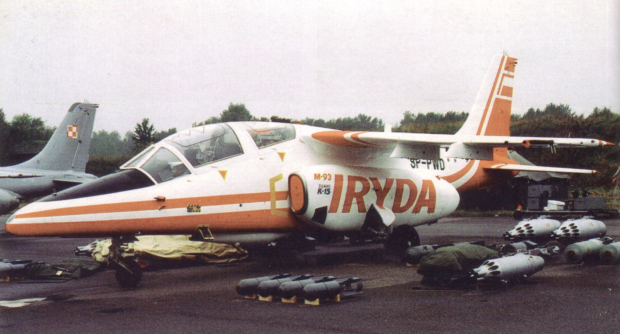 PZL I-22 Iryda